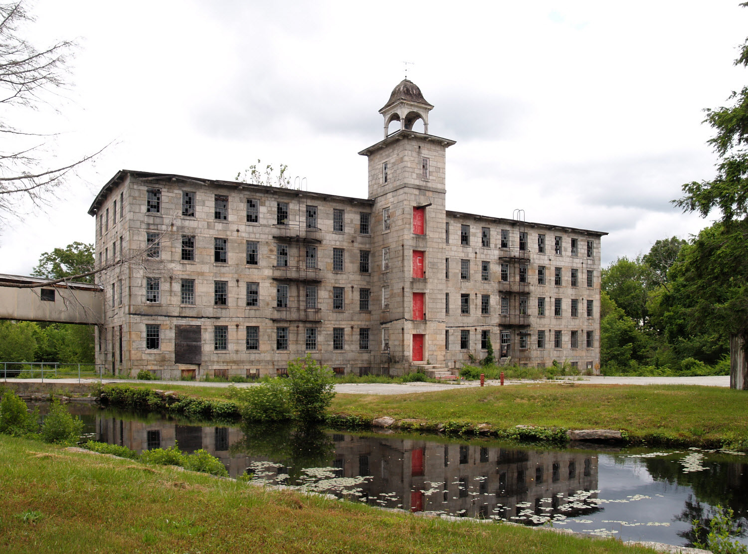 Slatersville Mill, June 2005, before recent renovation.